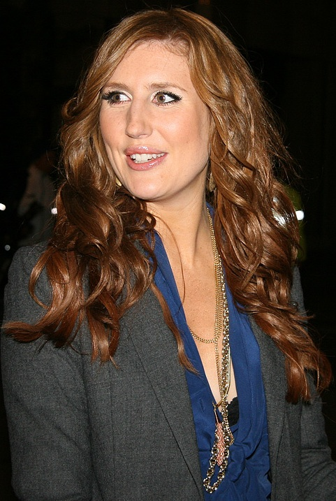 Jessi Cruickshank at the 2008 Toronto International Film Festival